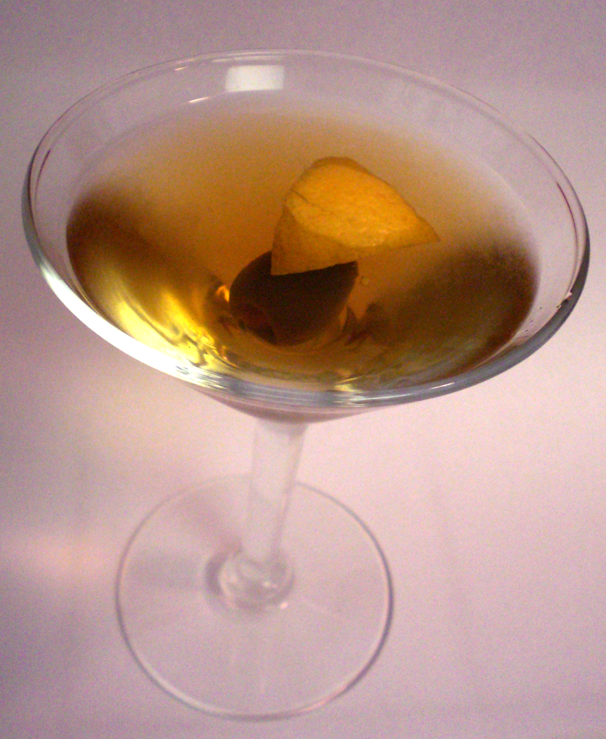 A delicious and very, very odd cocktail.